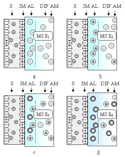 Molecular power 41. Energy exchange of fast air molecules of boundary and diffuse layers with solid molecules